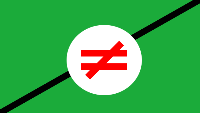 Pan-Iranism flag